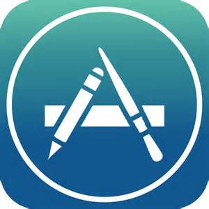 The App Store icon since iOS 7